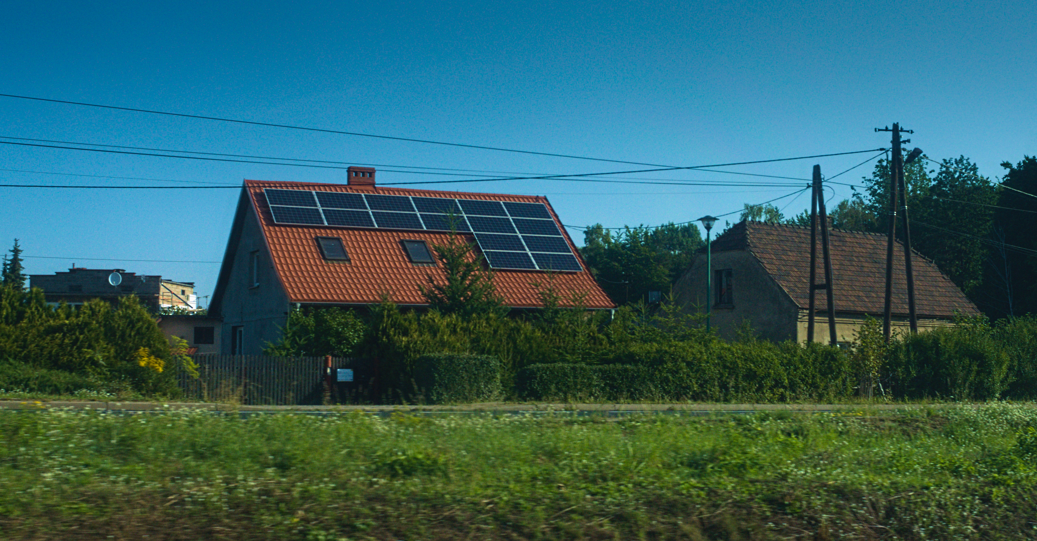 houses in Pietrzaki, 10 and 11 Częstochowska Street, view from PKP Hutnik Intercity train